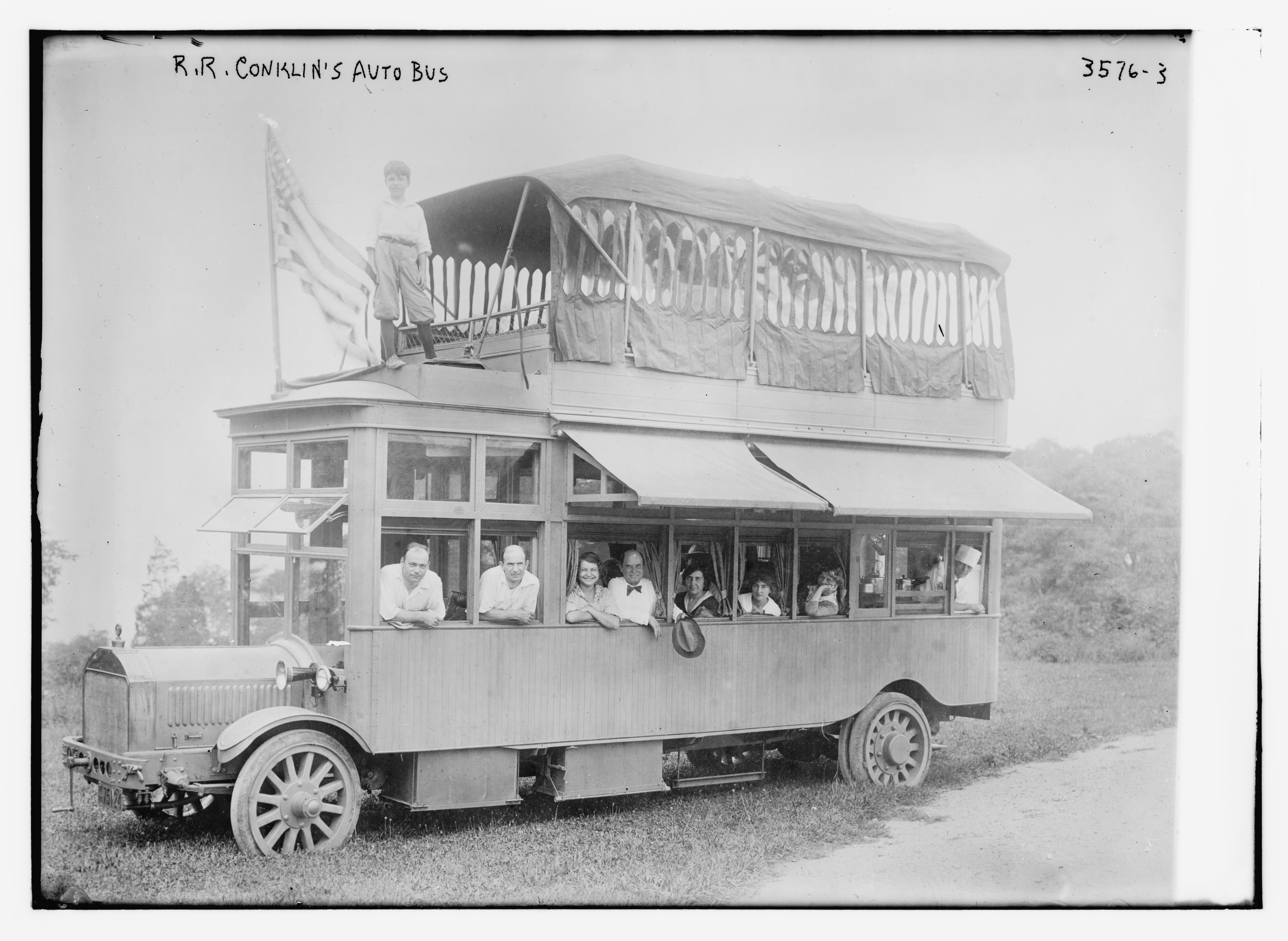 Title: R.R. Conklin's auto bus Abstract/medium: 1 negative : glass ; 5 x 7 in. or smaller.